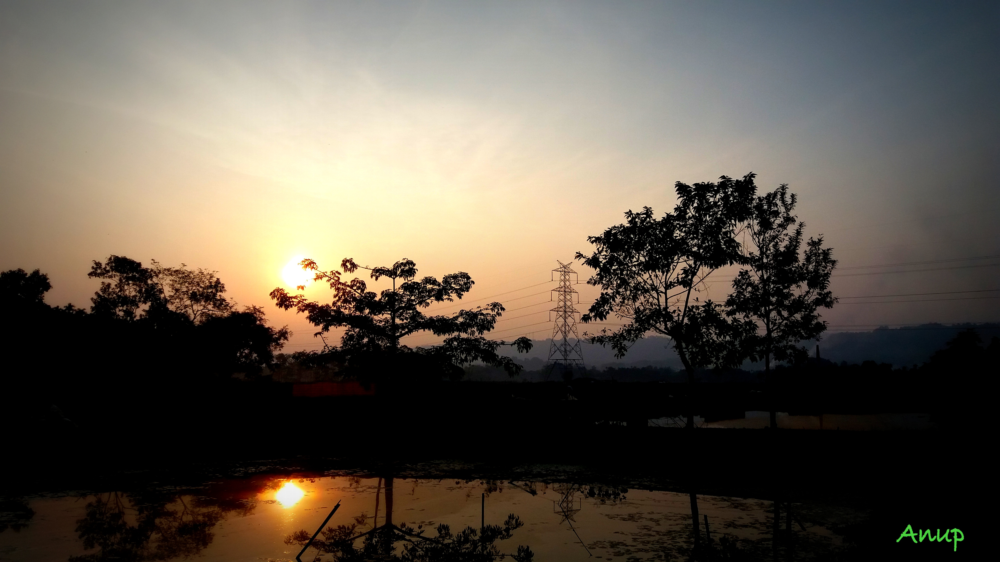 Channighat Sun Set